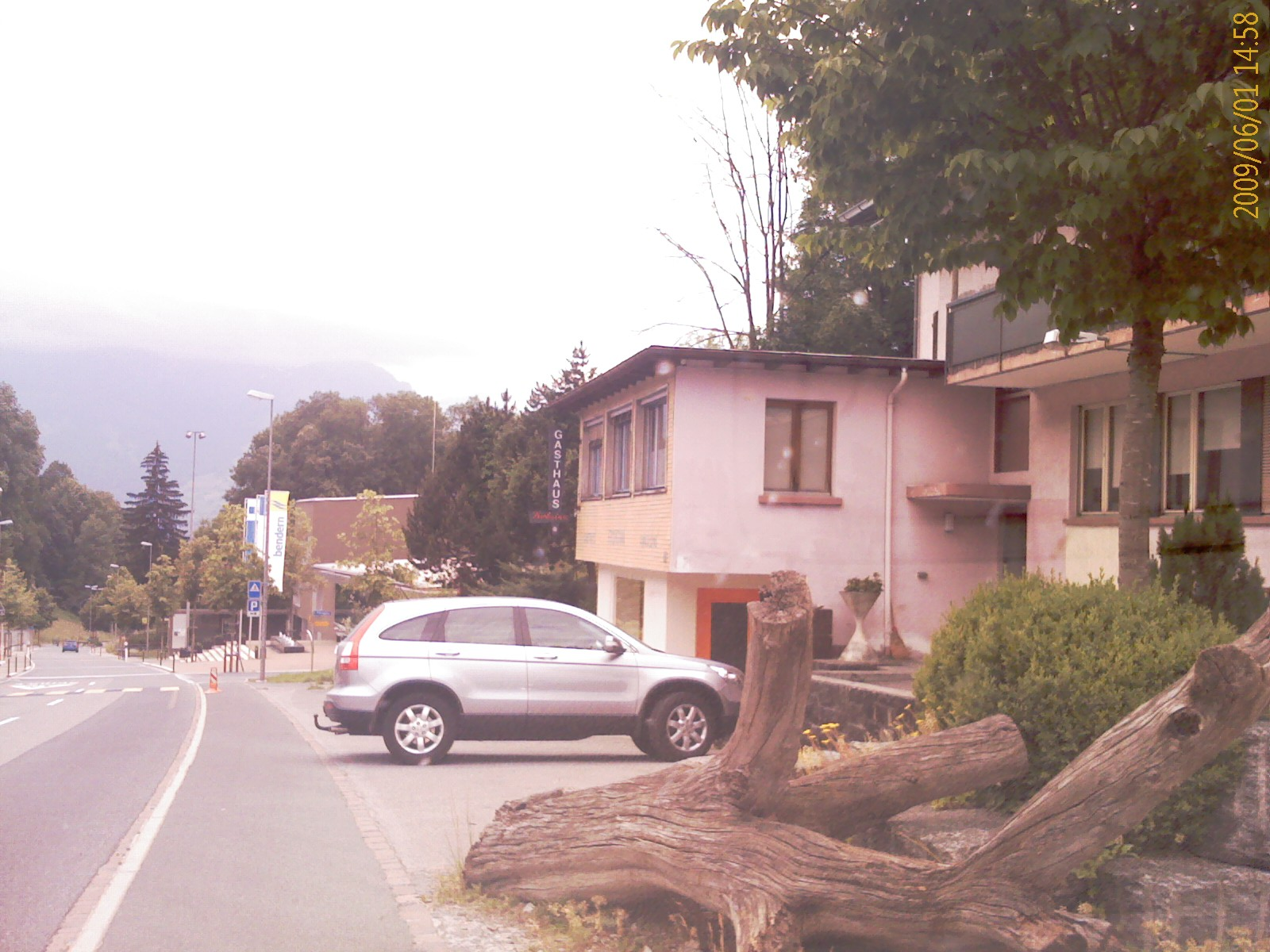 Gamprin, Liechtenstein